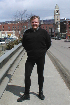 Man wearing leggings